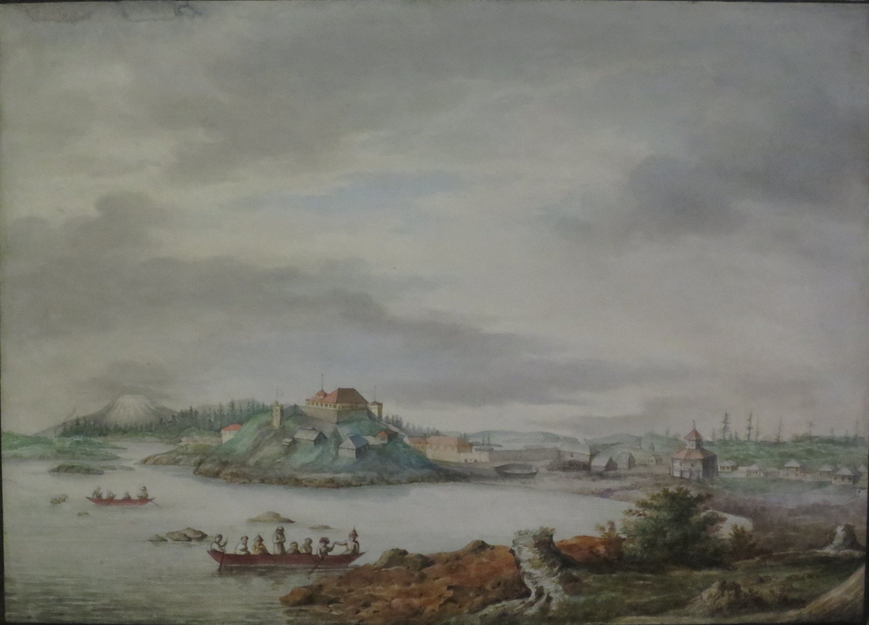 Sitka by Alexander Postels, watercolor on paper, Alaska State Museum, Juneau